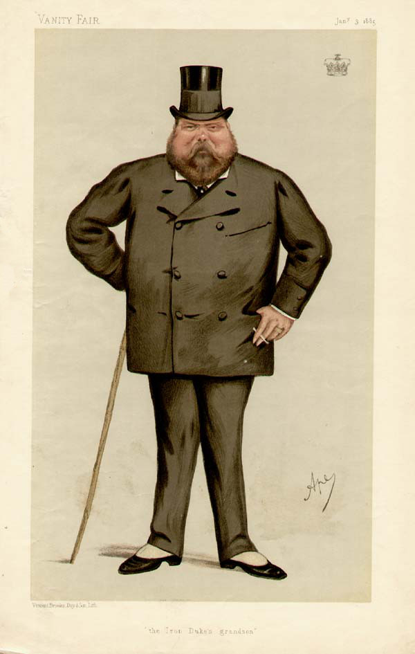 Statesmen No.457: Caricature of His Grace The Duke of Wellington. Caption reads: "the Iron Duke's Grandson"